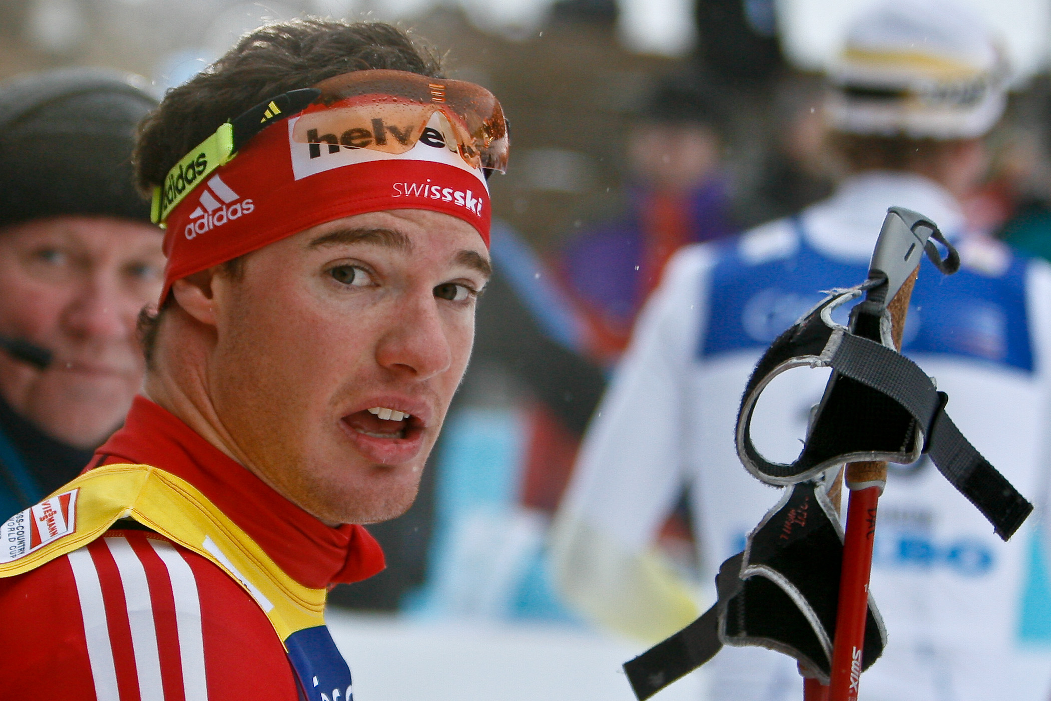 Dario Cologna in Trondheim the weekend before the last races of the 2008/2009 season. The license on this photo was changed on 11 February 2010 from All rights reserved to Creative Commons (CC-BY-SA). At the same time, a bigger version (2100x1400px) of the photo replaced the old one. f you use this picture, remember to give credit according to the license (